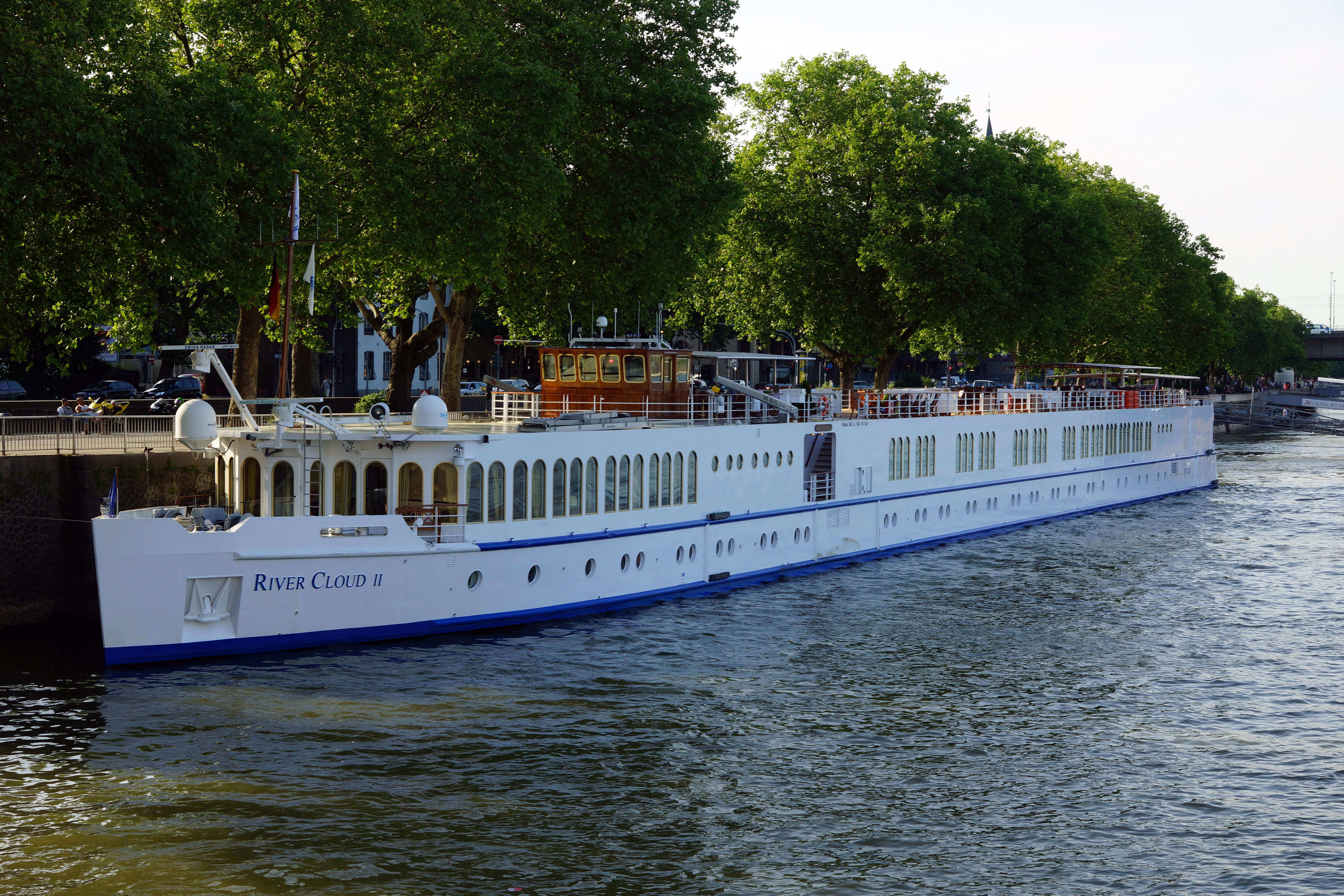 River cruise ship River Cloud II in Cologne.